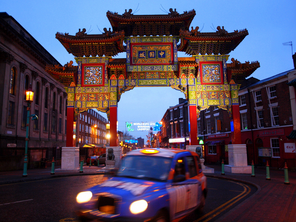 Liverpool China Town Arch